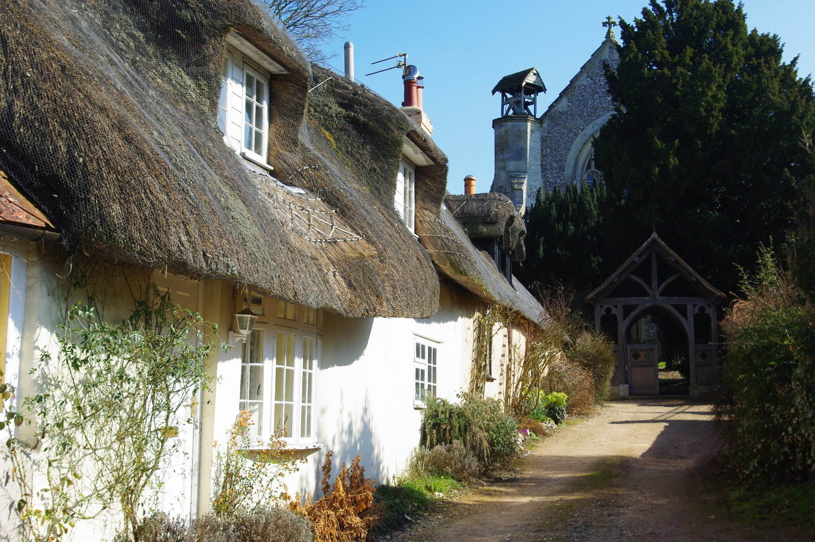 St. Nicholas Church, Cholderton, Wiltshire